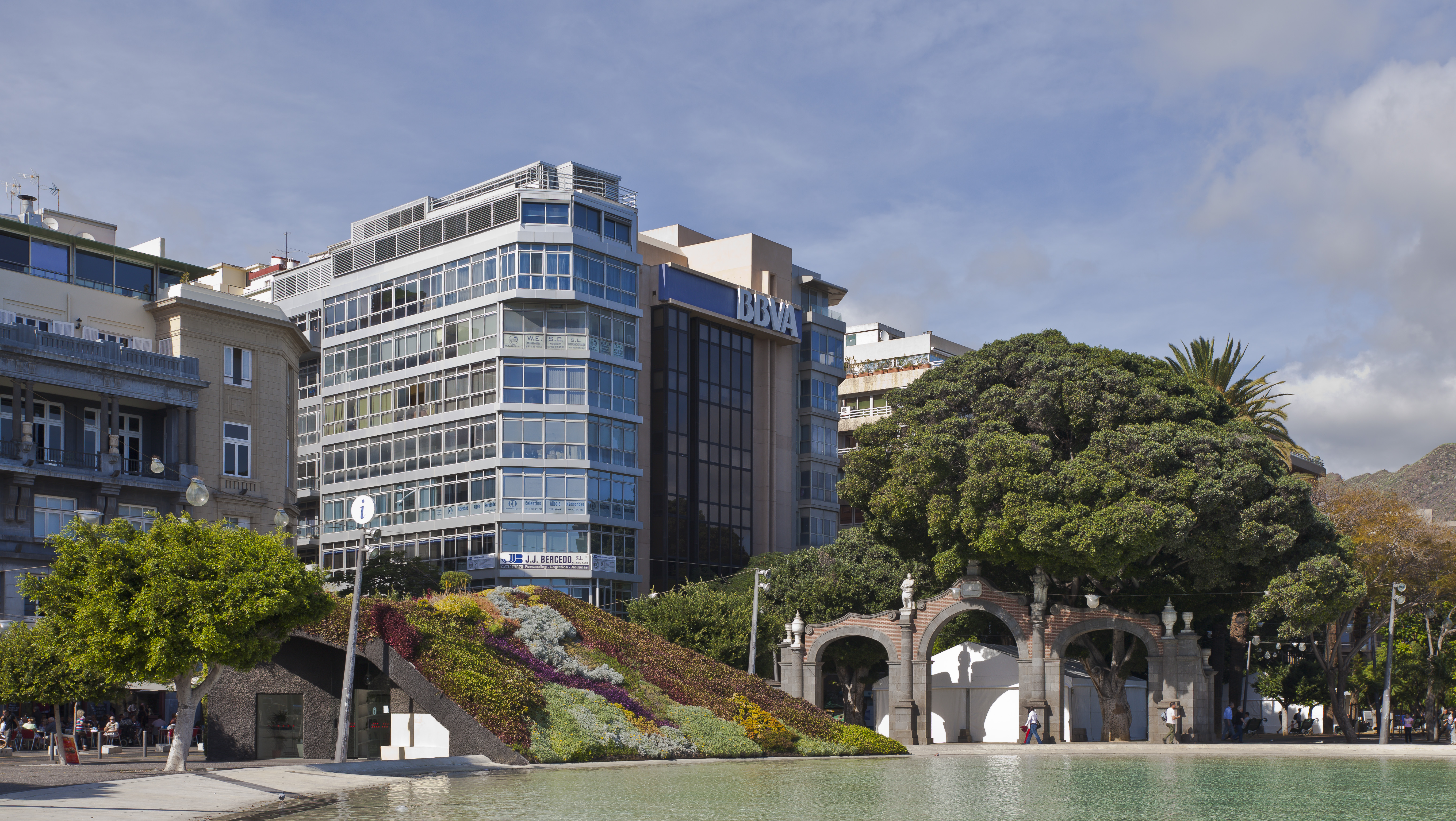 Sqaure of Spain, Santa Cruz de Tenerife, Spain